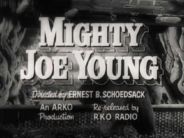 Mighty Joe Young - trailer title (cropped screenshot)